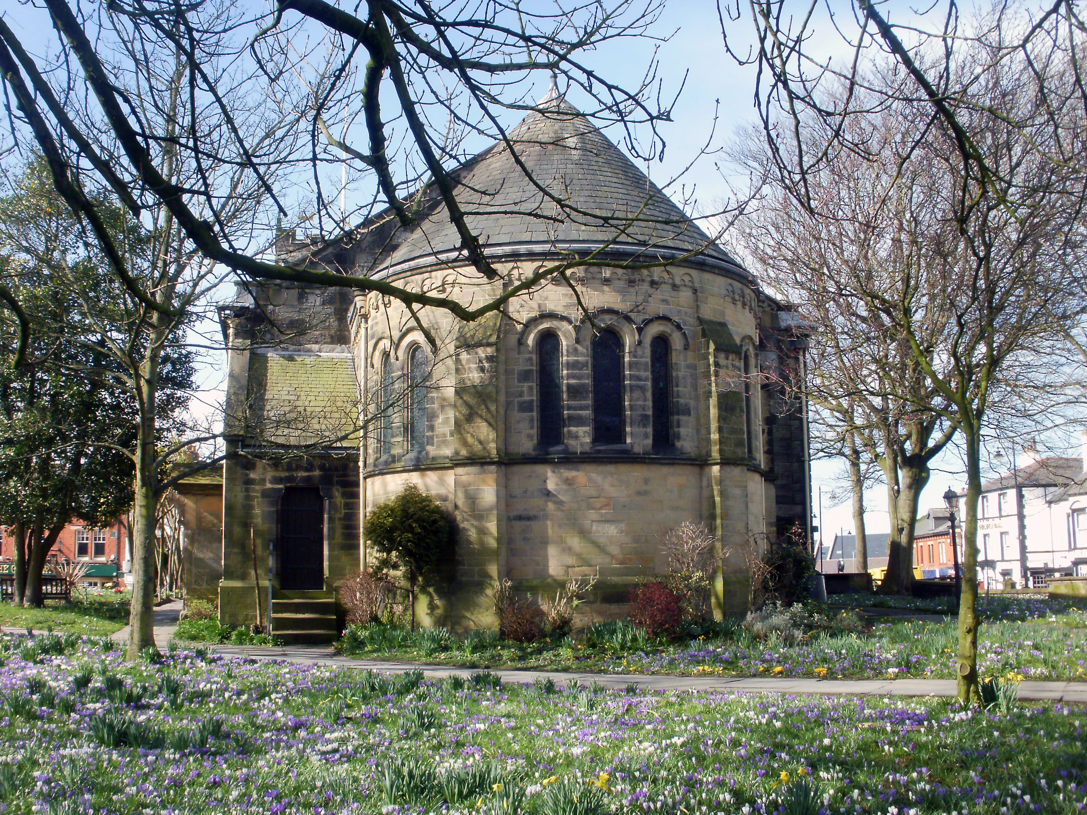 St Chad's Church, Poulton-le-Fylde, Lancashire, England. The Norman Revival apse was added in 1868.